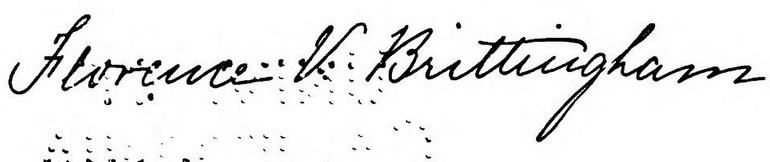 Florence V. Brittingham signature, from an 1893 publication.